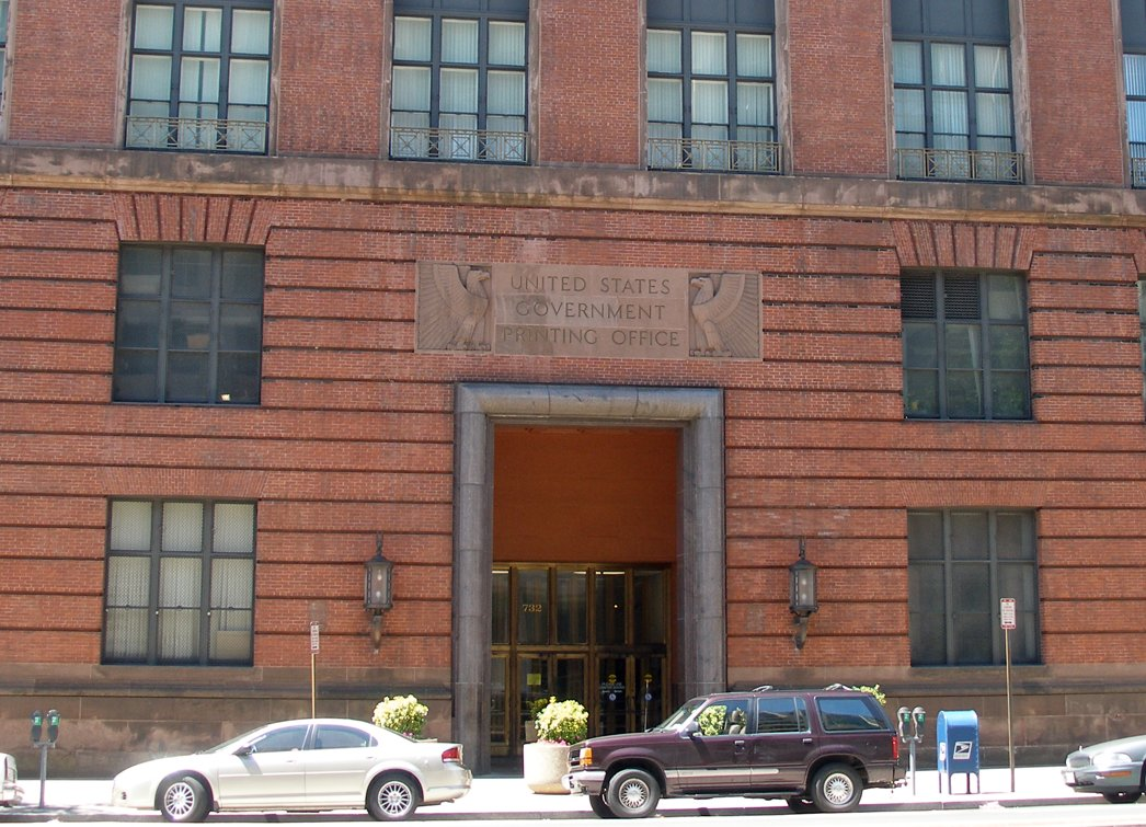 The entrance to the giant headquarters of the United States Government Printing Office in Washington, D.C.